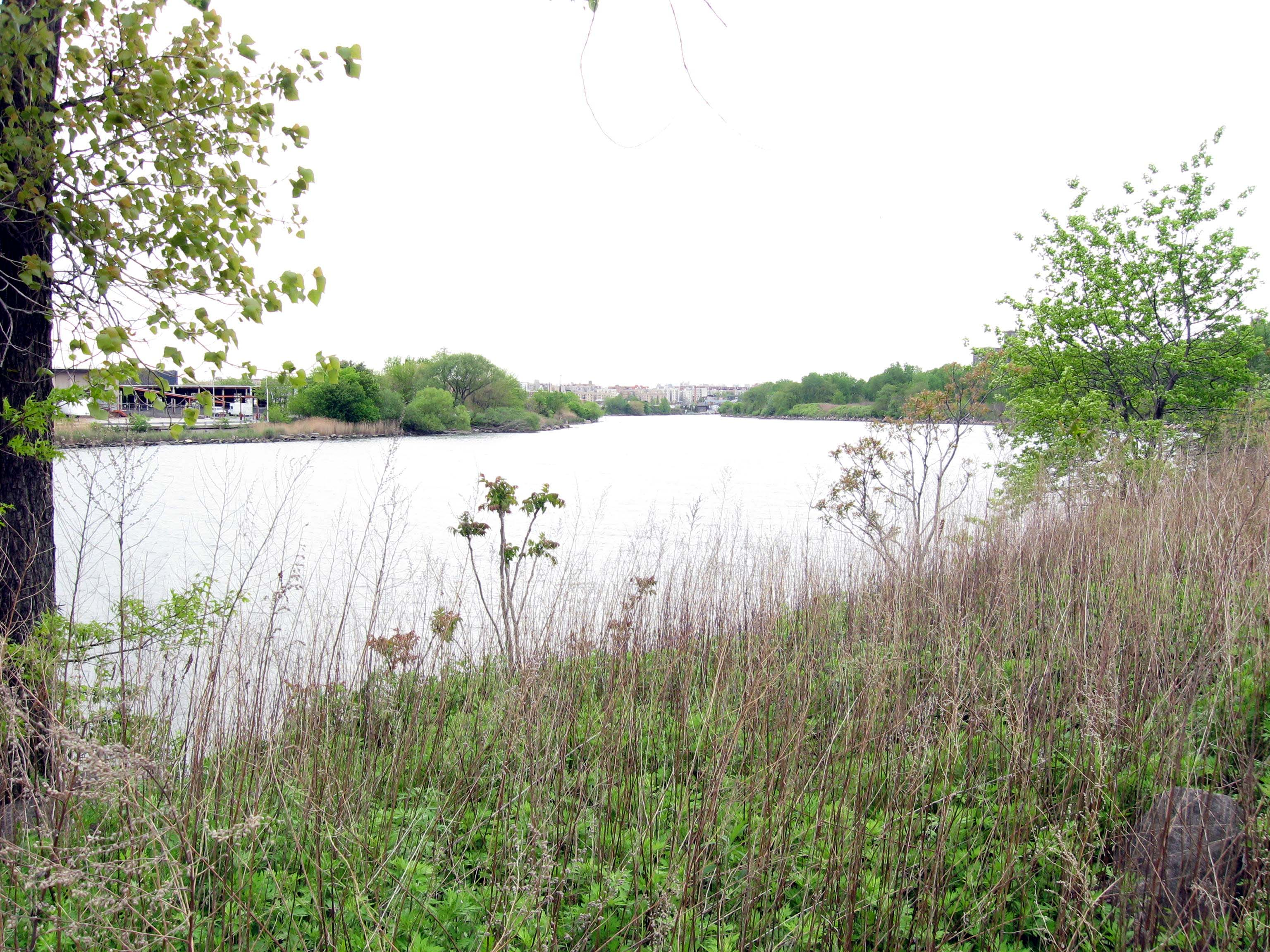 Looking northwest up the Bronx River from its left bank near its mouth on a cloudy early afternon in early May.